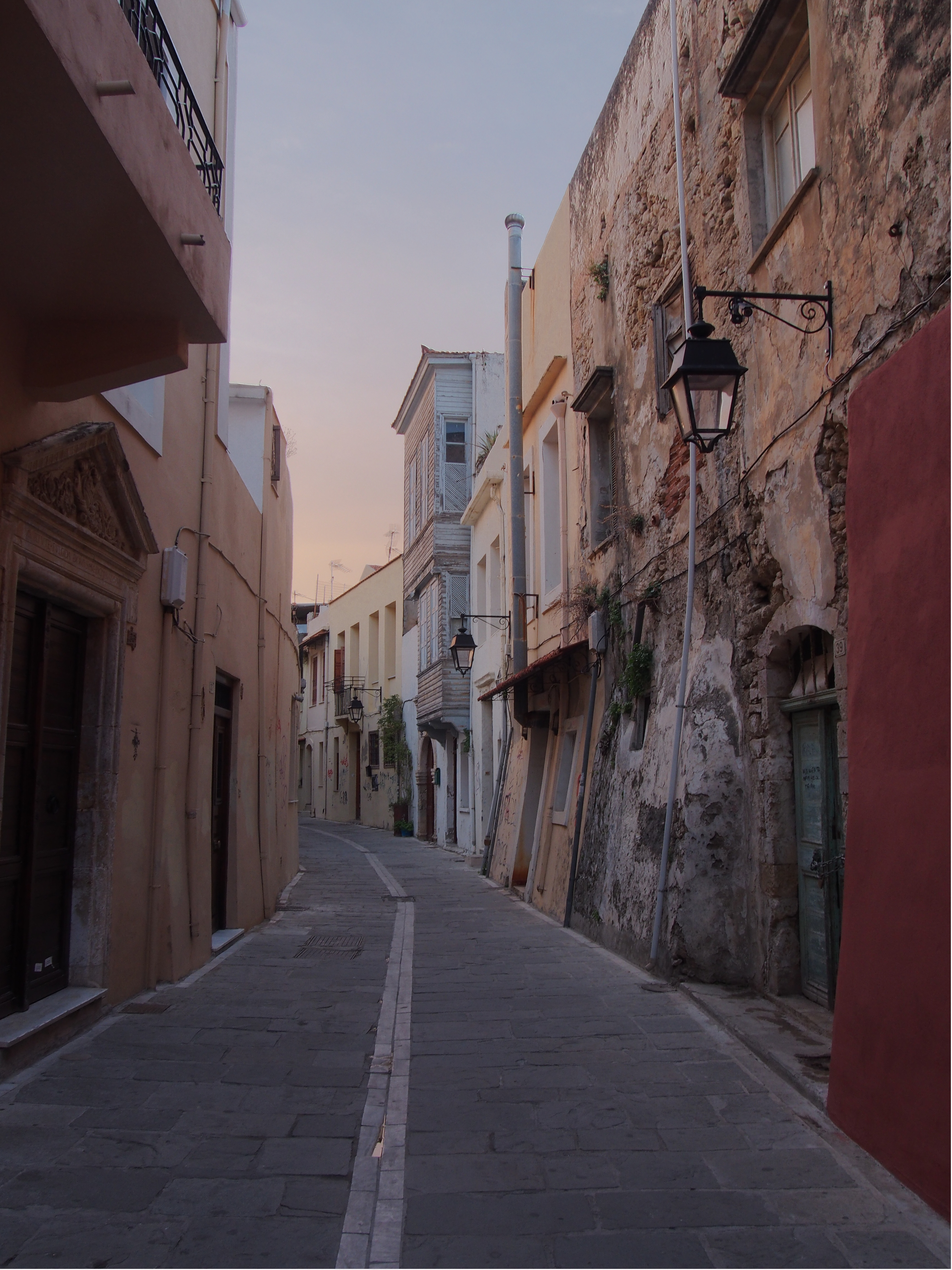 Vernadou street, to the left is the doorway of Vernadou 30, Rethymno, at sunset